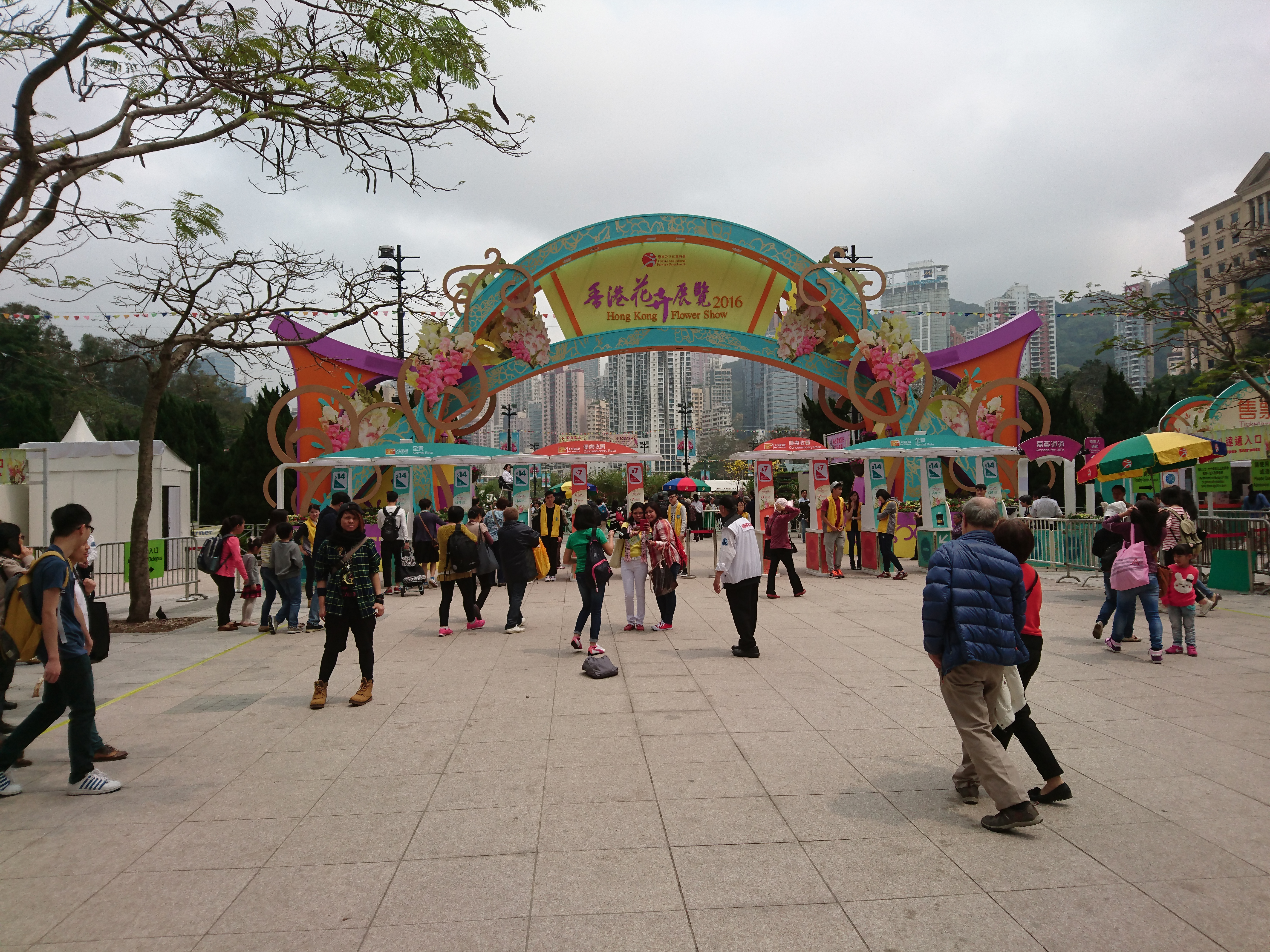 Hong Kong Flower Show 2016